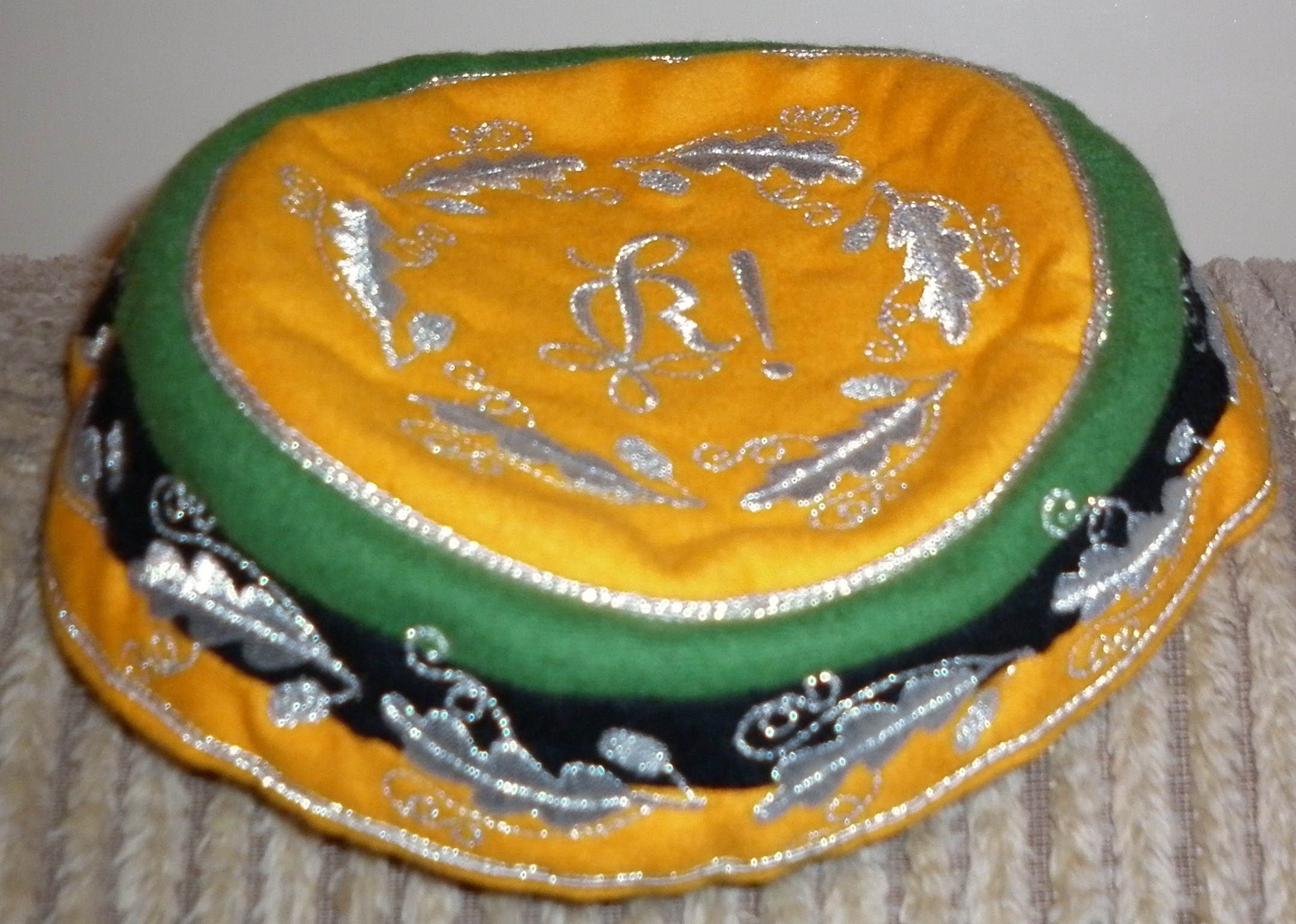 Straßencerevis of Sängerschaft Rheno-Silesia zu Clausthal-Zellerfeld